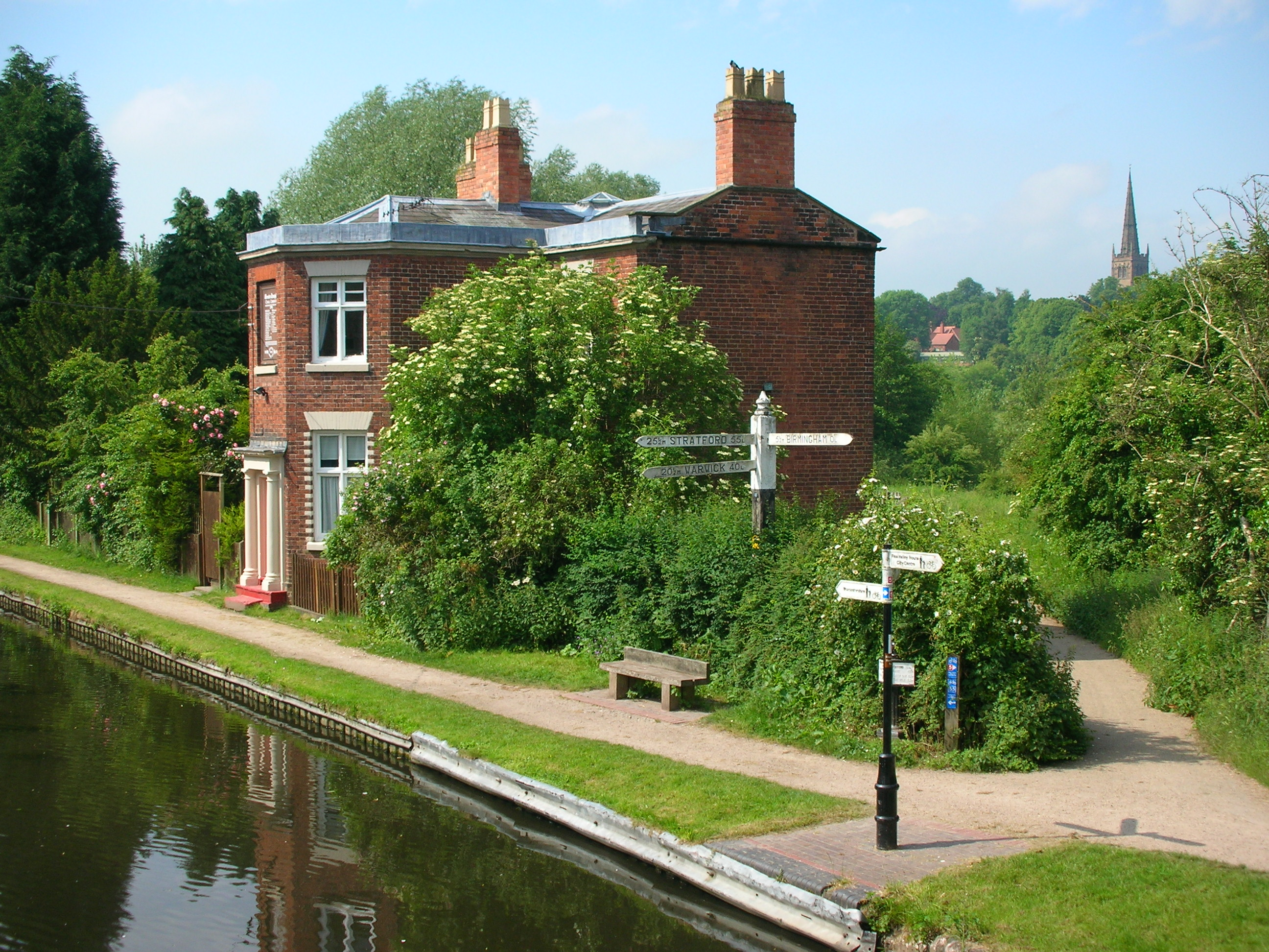 The Worcester and Birmingham toll house at Kings Norton Junction near Kings Norton, Birmingham, England, where the Stratford-upon-Avon Canal terminates and meets the Worcester and Birmingham Canal. The building, c 1802, is Grade II listed. Also visible is Kings Norton church. Photographed by me 11 June 2007. Oosoom